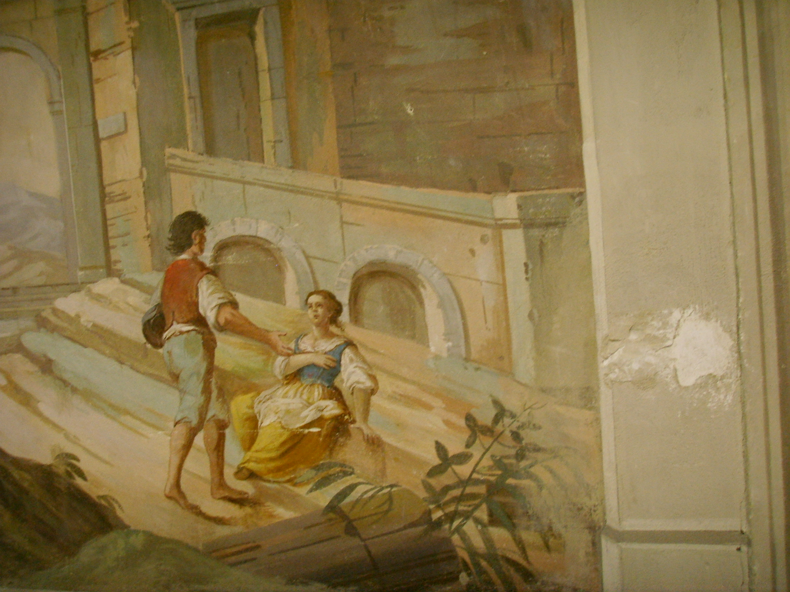 Palazzo_di_San_Clemente,_ library frescoed rooms. See filename for room ref. number Frescos of XVIII century by unknown author(s) in Florence